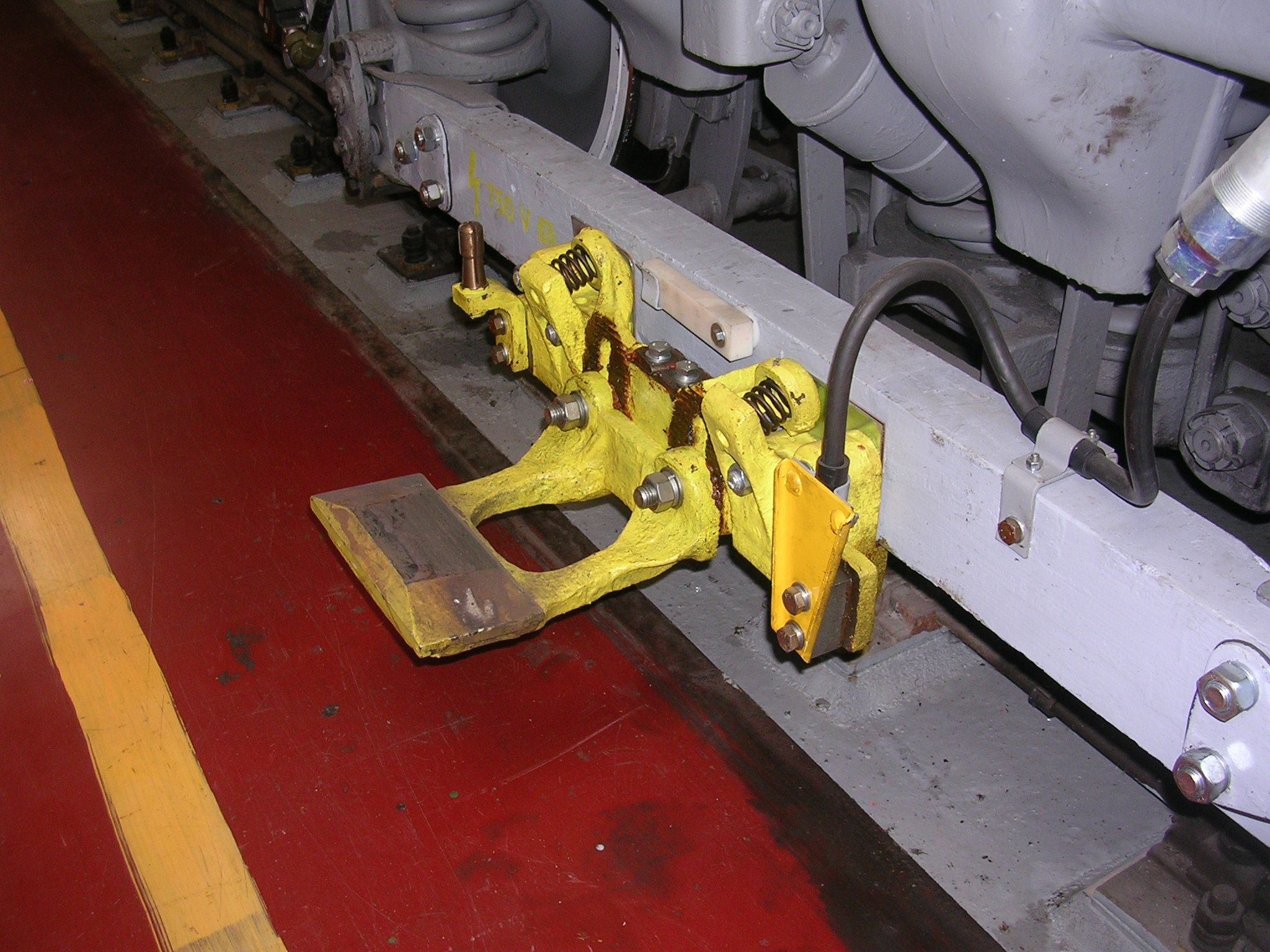 Strašnice, Prague, the Czech Republic.